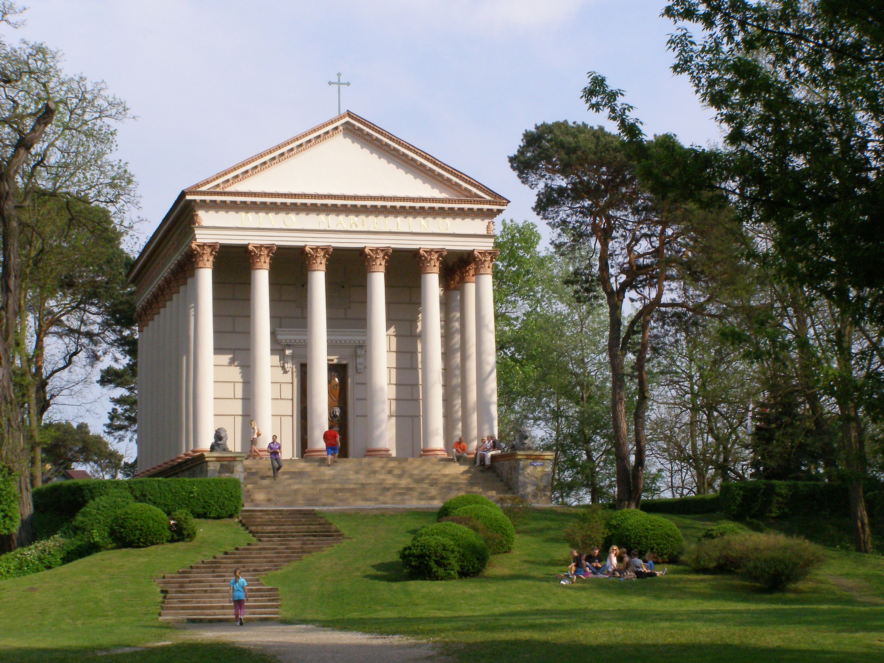 Rogalin - the Raczyński Mausoleum, St. Marcelin church